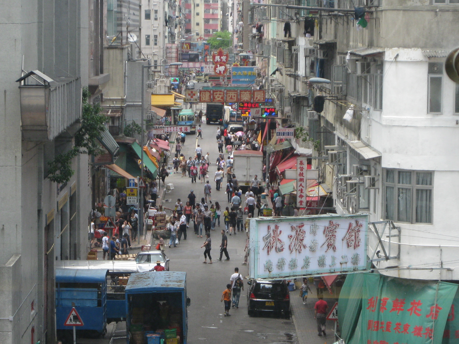 Chuen Lung Street from Citywalk 2